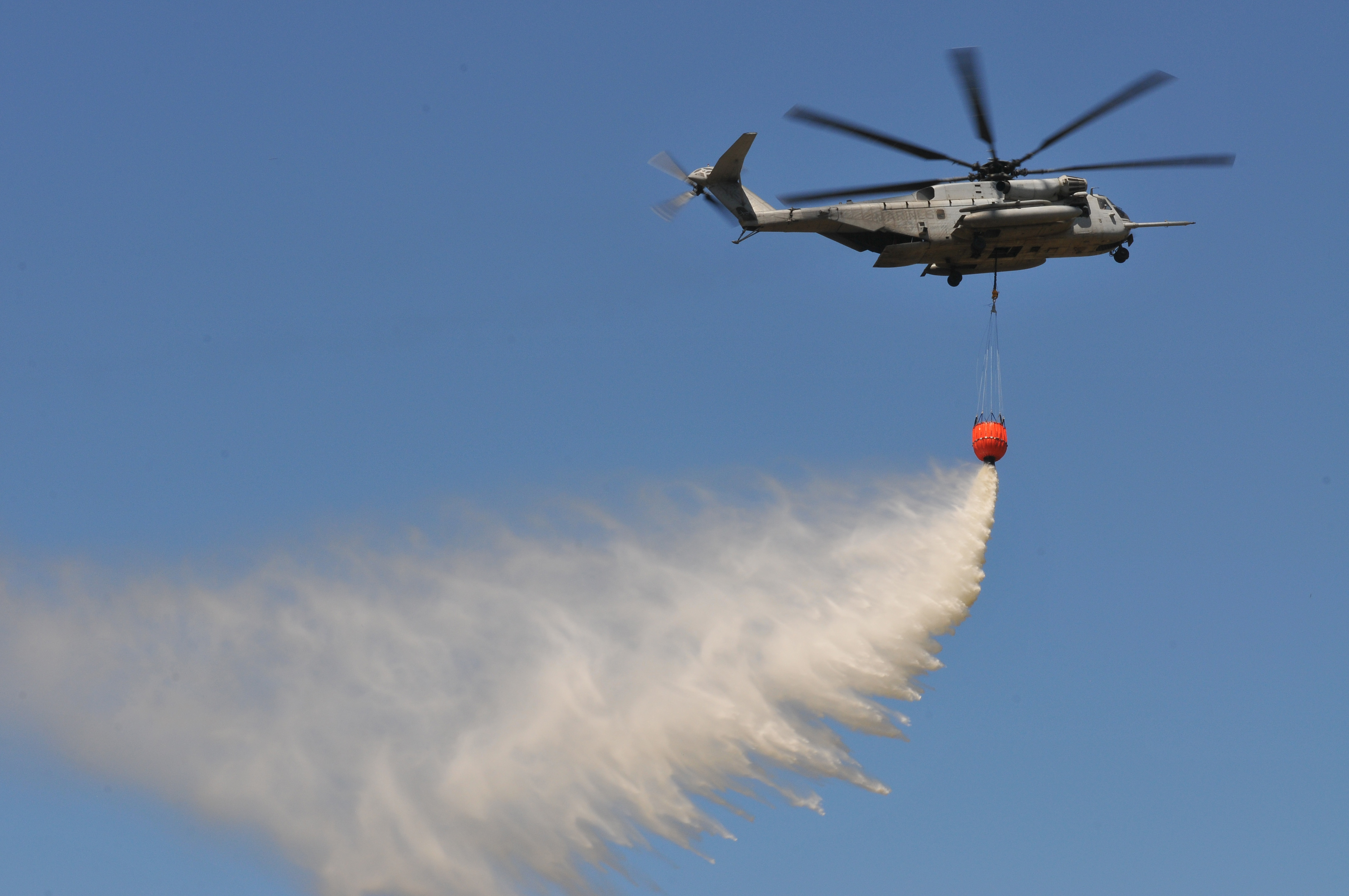 CAMP PENDLETON, Calif. (May 12, 2011) A CH-53 Sea Stallion helicopter assigned to Marine Medium Helicopter Squadron (HMM) 364 drops water during an annual firefighting exercise. The exercise involved Navy, Marine Corps, San Diego County Sheriff's Department and the California Department of Forestry and Fire Protection. (U.S. Navy photo by Mass Communication Specialist 3rd Class Stephen D. Doyle II/Released)